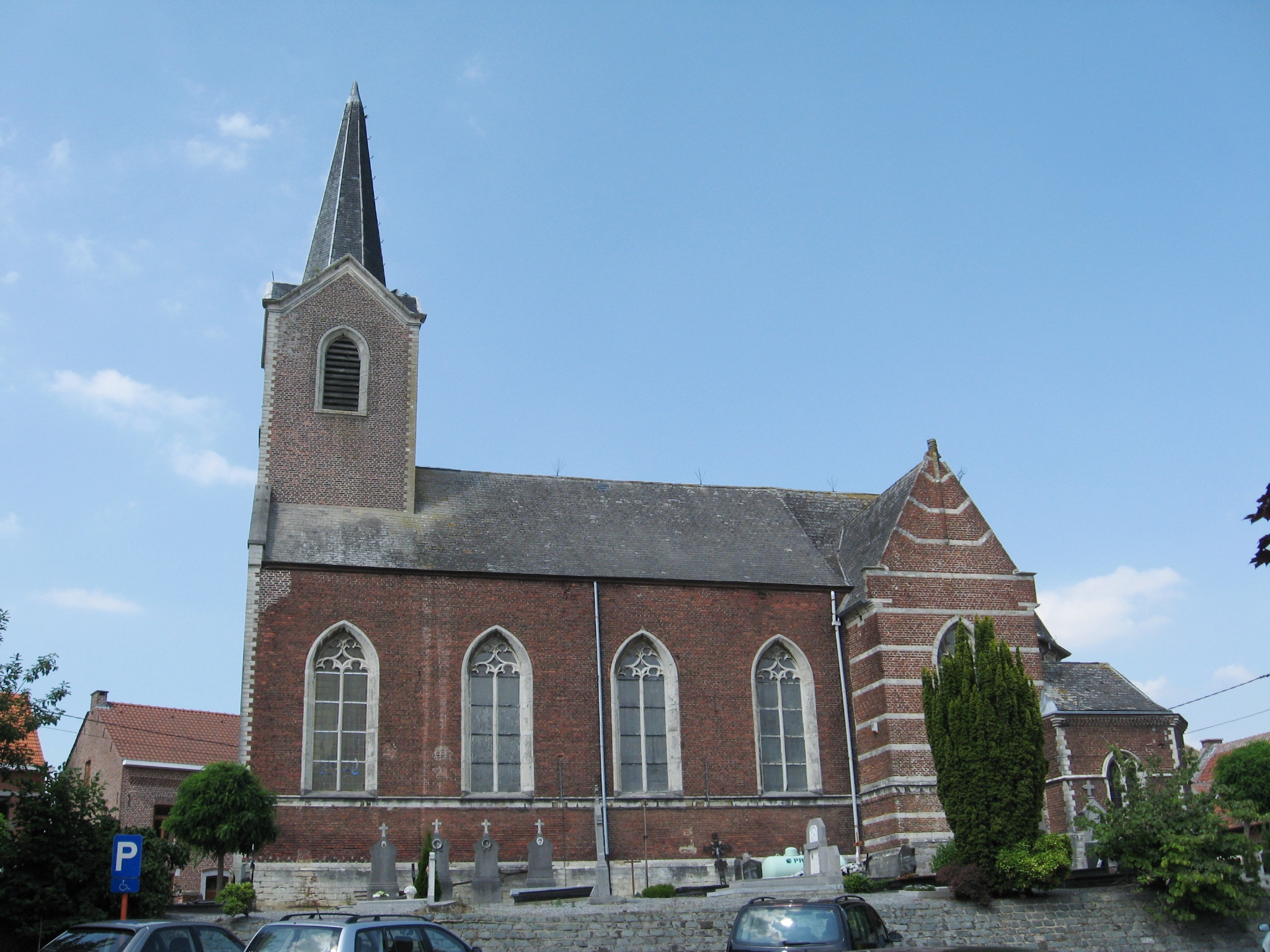 Church of Saint Catherine in Zuurbemde, Glabbeek-Zuurbemde, Glabbeek, Flemish Brabant, Belgium